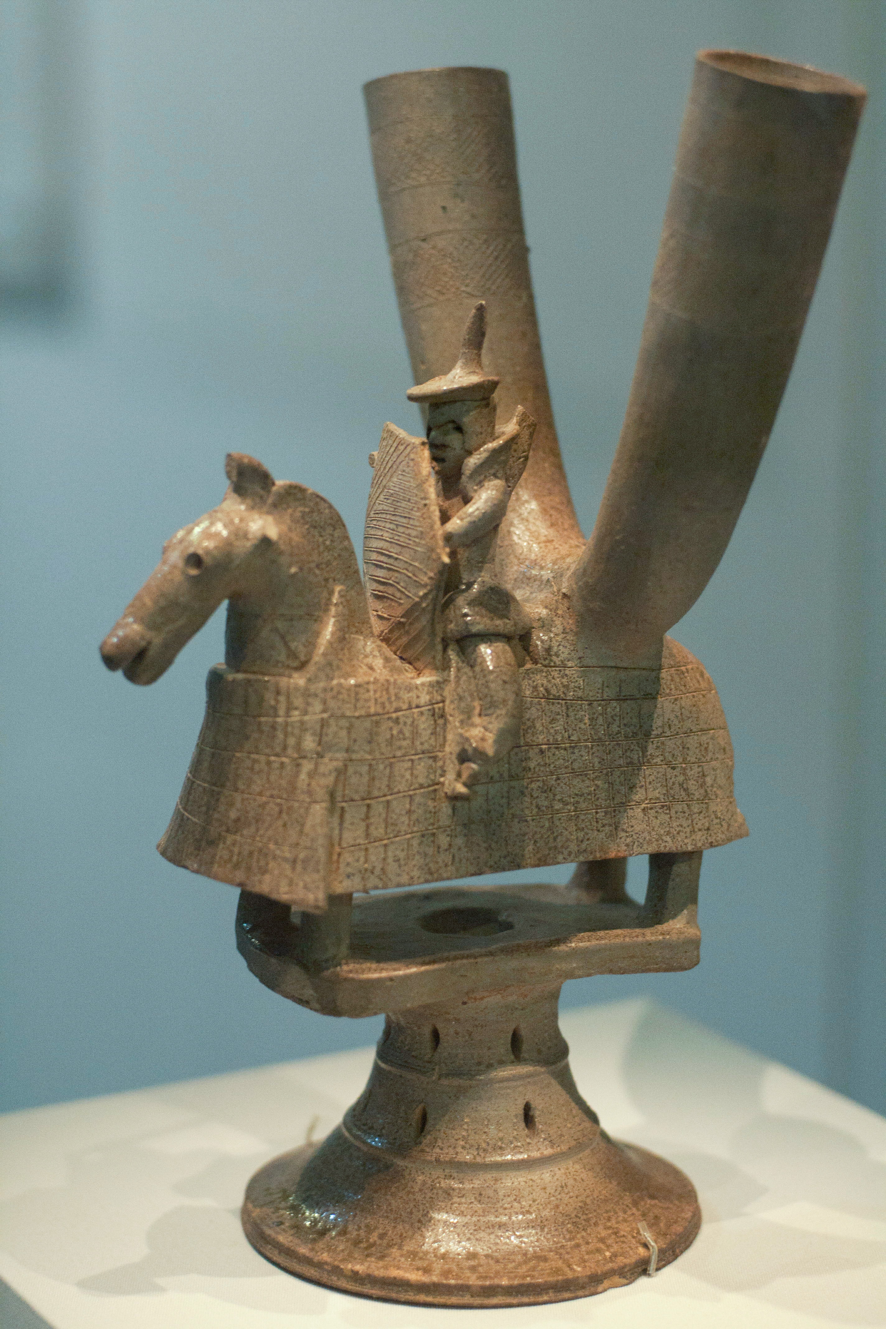 Ceremonial stoneware vessel, double wine cup in the shape of a mounted warrior from Gaya federation (42-562), a group of statelets which existed during the Three Kingdoms period in southern Korea. Stone ware with ash glaze figurine, 5th-6th century, reportedly from Tôksan-ni, Kimhae, South Kyongsang Province. Gyeongju National Museum in Gyeongju, Gyeongbuk province. It was designated as National Treasure No. 275 of the Republic of Korea on January 15, 1993. It is a person-shaped earthenware with a height of 23.2cm, width of 14.7cm, and bottom diameter of 9.2cm, in the shape of a person who is riding a horse and thought to have been made in the Three Kingdoms period. A rectangular flat plate was placed on the base of the trumpet, and a horse was placed on it. The base is the same shape as the bamboo plate of Gaya, and has two rows of holes. At the four corners of the base, there is a horse leg carved by hand. The horses depicted the armor very realistically, and the wiggles are straightened. He sat in the armor, holding the weapon, on the horse. The warrior wears a helmet on his head, a lavelin on his right hand, and a shield on his left hand. Especially noteworthy is the realistic representation of a shield that does not convey the real thing yet. On the back of the samurai, a pair of horn-shaped cups were placed. This horsemen-shaped earthenware is valued as valuable material for the study of Gaya's horses and weapons.